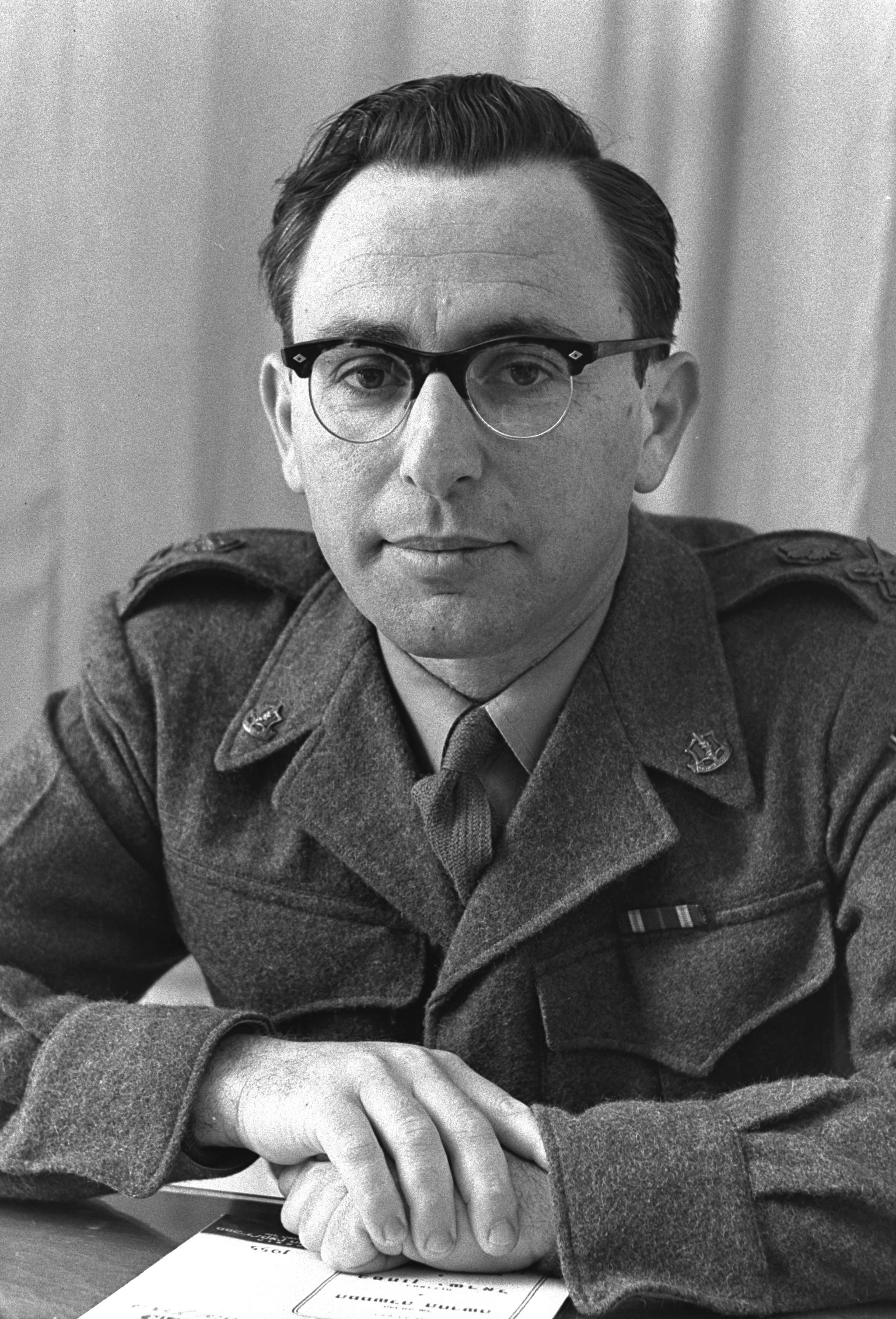 ALUF ZVI TZUR, O.C. ADJUTANT GENERAL'S BRANCH.